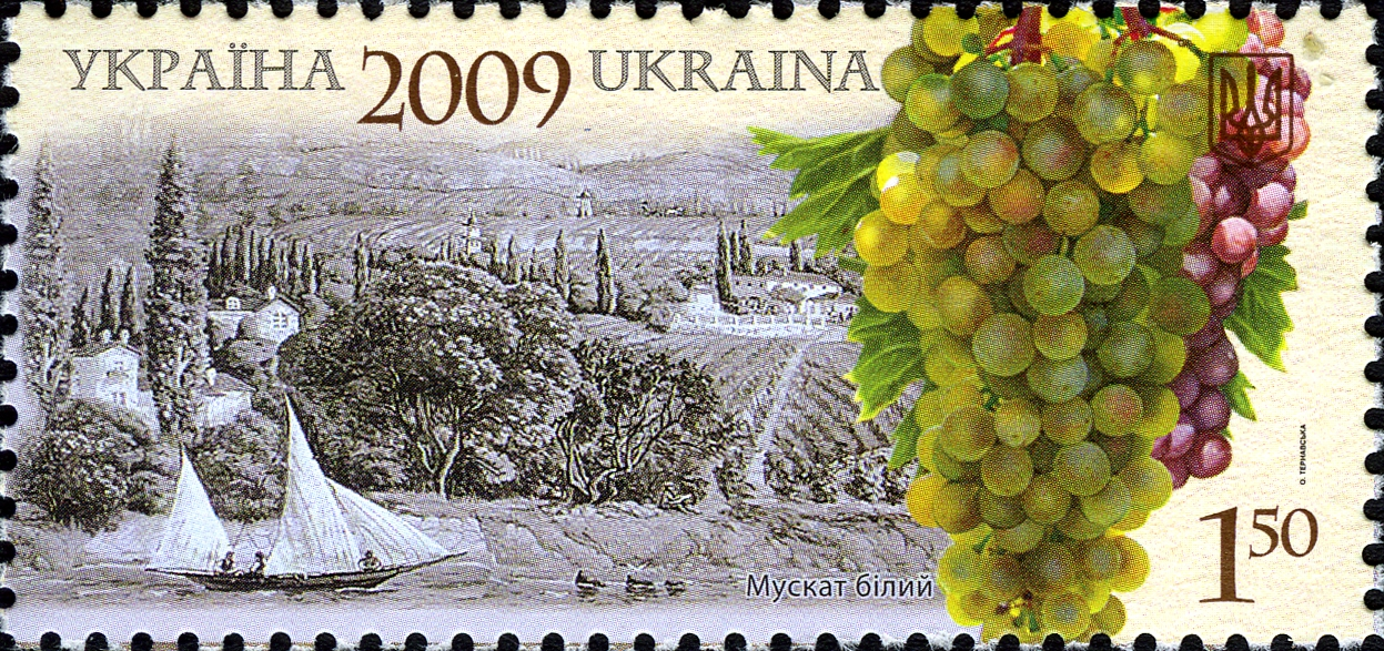 Winemaking in Ukraine - Muscat White